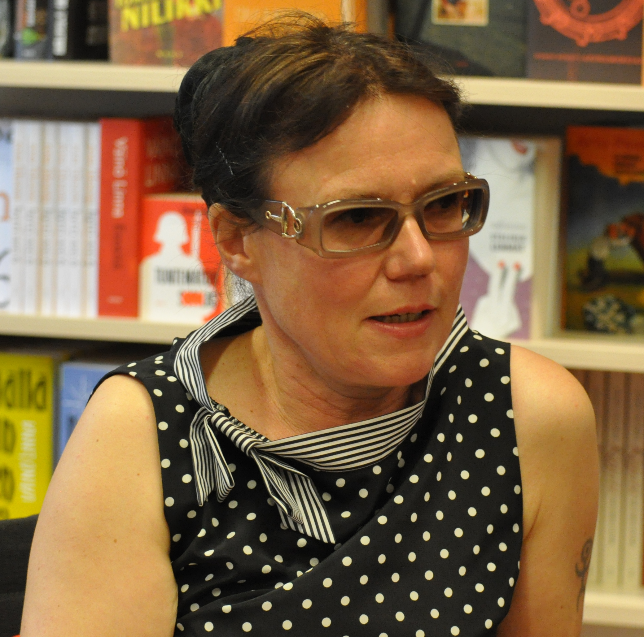 Finnish writer Rosa Liksom at the WSOY bookstore on the Night of the Arts in Helsinki, 2011.